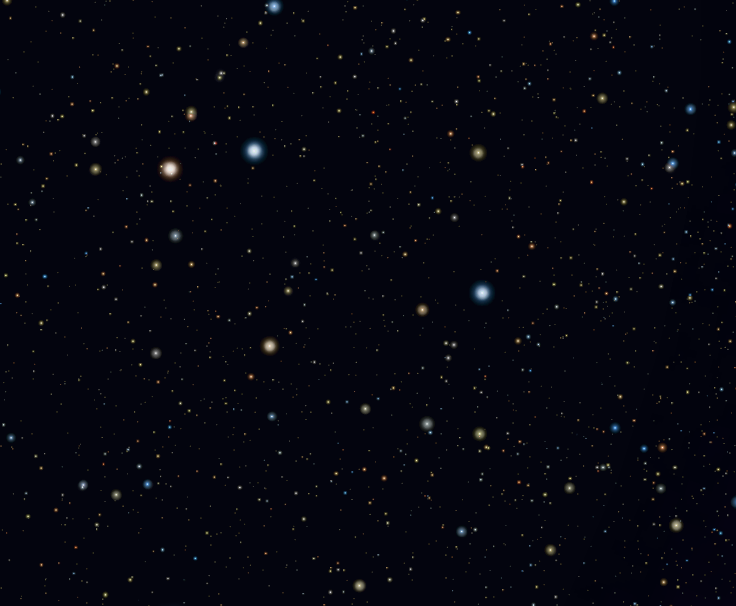 Image of Indus